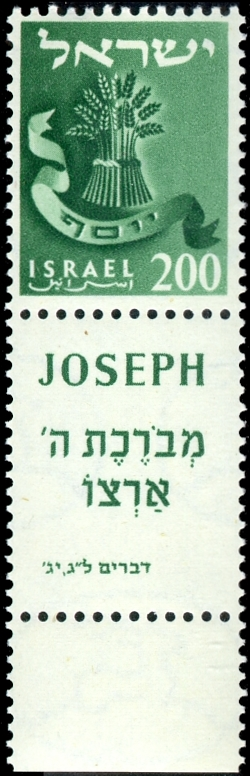 Tribes stamp - 200 mil - Joseph. Second definitive series. Inscription on tab: "...blessed of the Lord be hs land..." Deuteronomy XXXIII, 13.